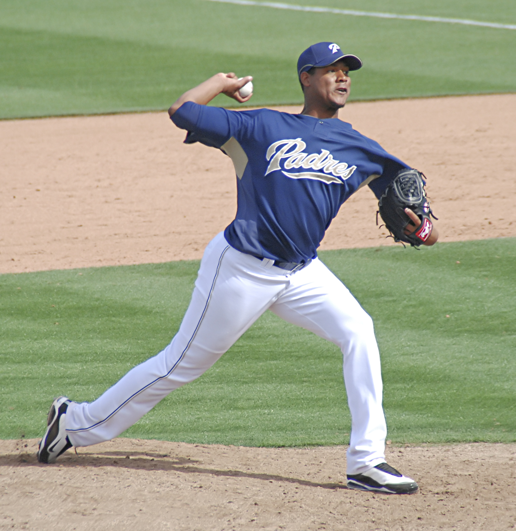 Ivan Nova, pitching for the San Diego Padres in March 2009 Spring Training baseball in Peoria, Arizona